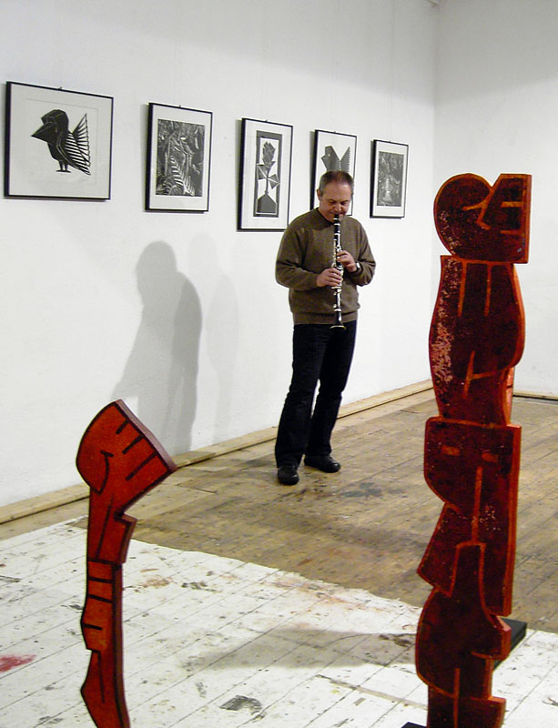 Floros Floridis in ort e.V. Wuppertal, Germany, performing at a vernissage of El Loko.